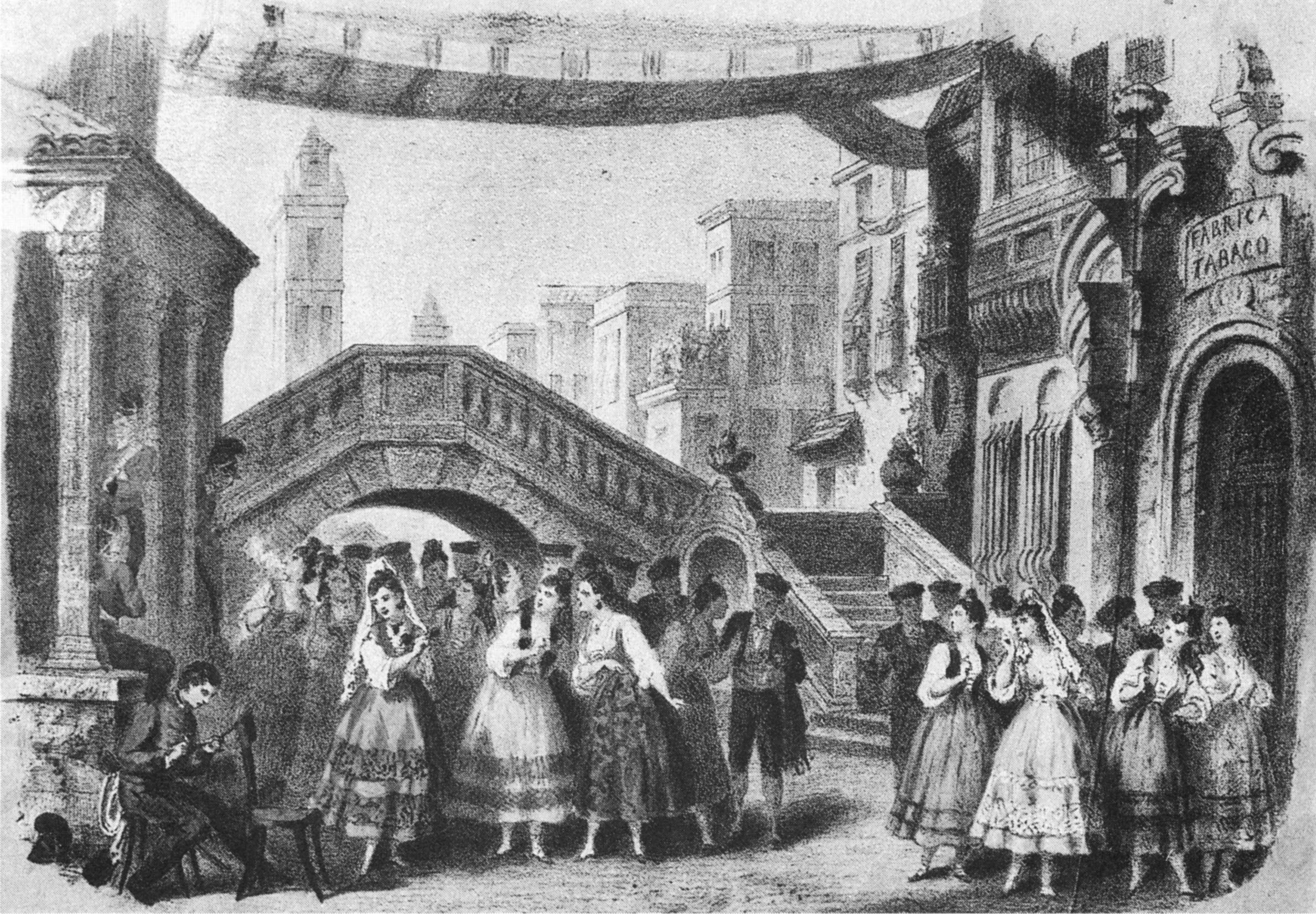 Act 1 of the original 1875 production of Bizet's Carmen